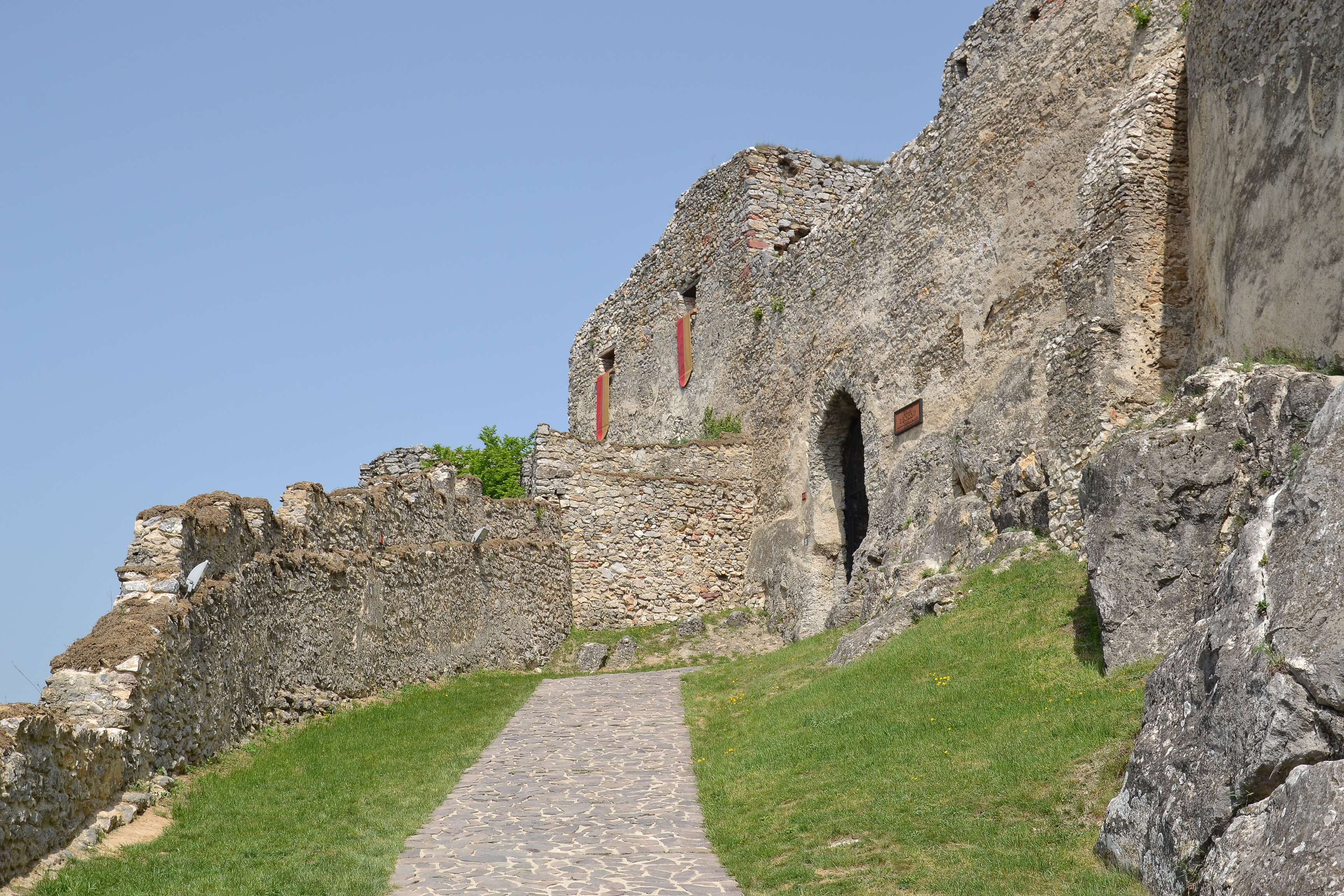 Beckov castle - main gate